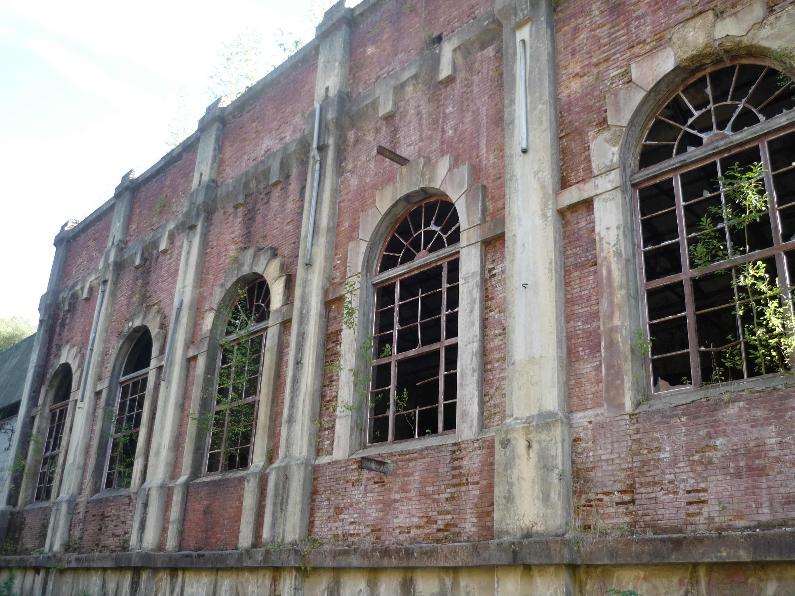 A building of the El Terrerón Mine, Langreo, Spain (Industrial Heritage)